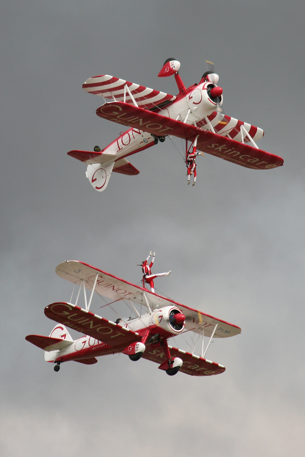 Two wing walkers of Team Guinot on two Boeing-Stearman Model 75 at the 2008 'Flying Legends' air show in Duxford, UK.